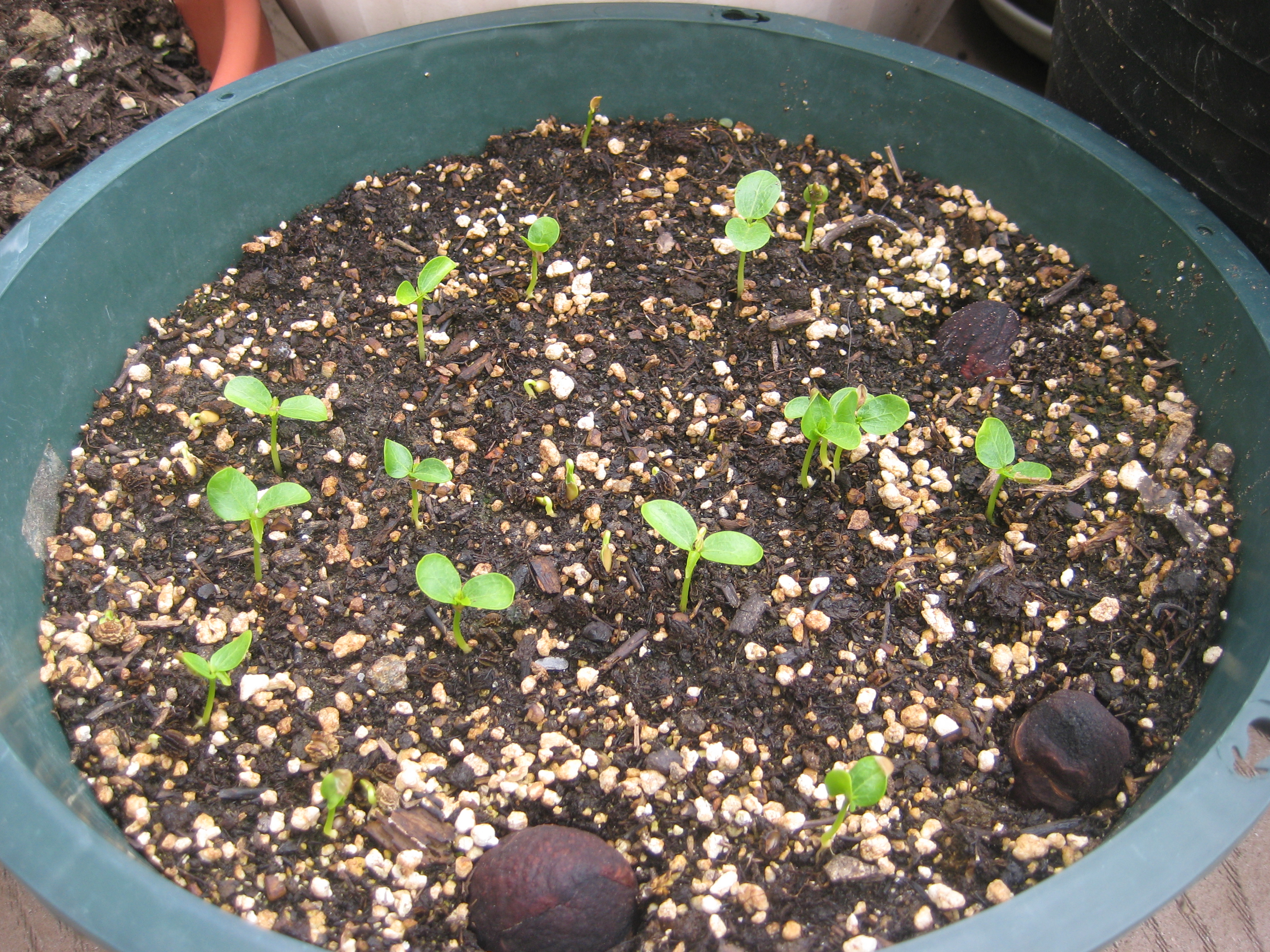 Papaya seedlings (Carica papaya).